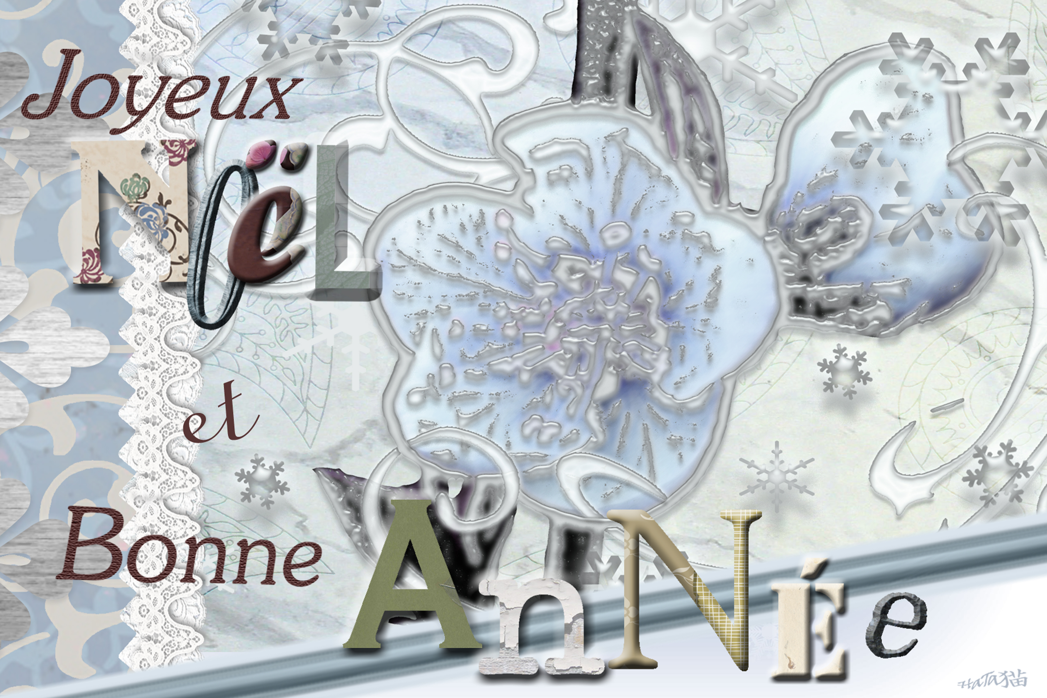 blue flower, scrapbooking